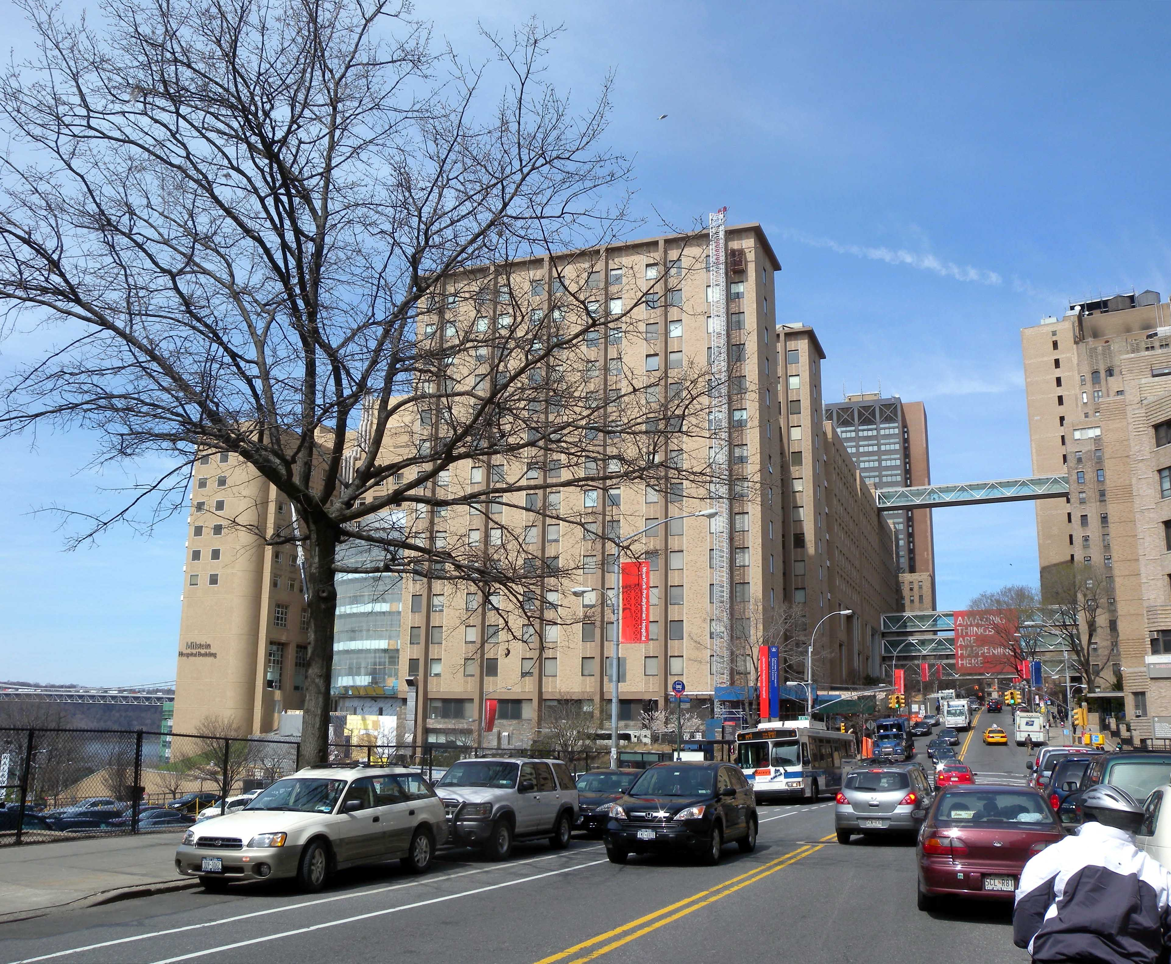 Looking north up Fort Washington Avenue (Manhattan) at various buildings of Columbia University Medical Center on a sunny afternoon. See File:NY-P H Broadway 165 jeh.jpg for Broadway building.